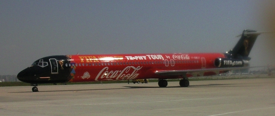 The plane carrying the World Cup. Fifa World Cup 2010 trophy plane in Atatürk Airport İstanbul